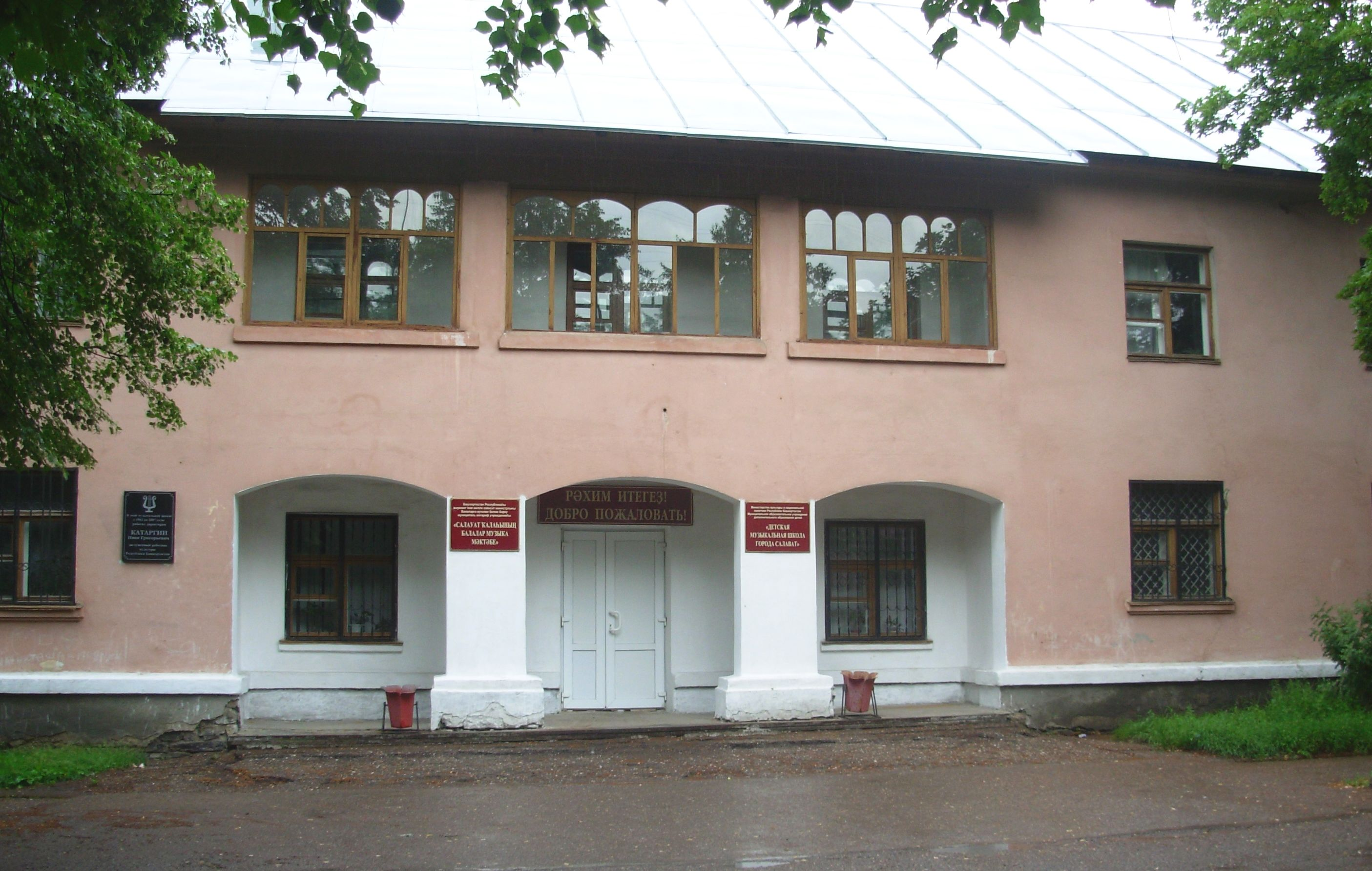 musical school Salavat